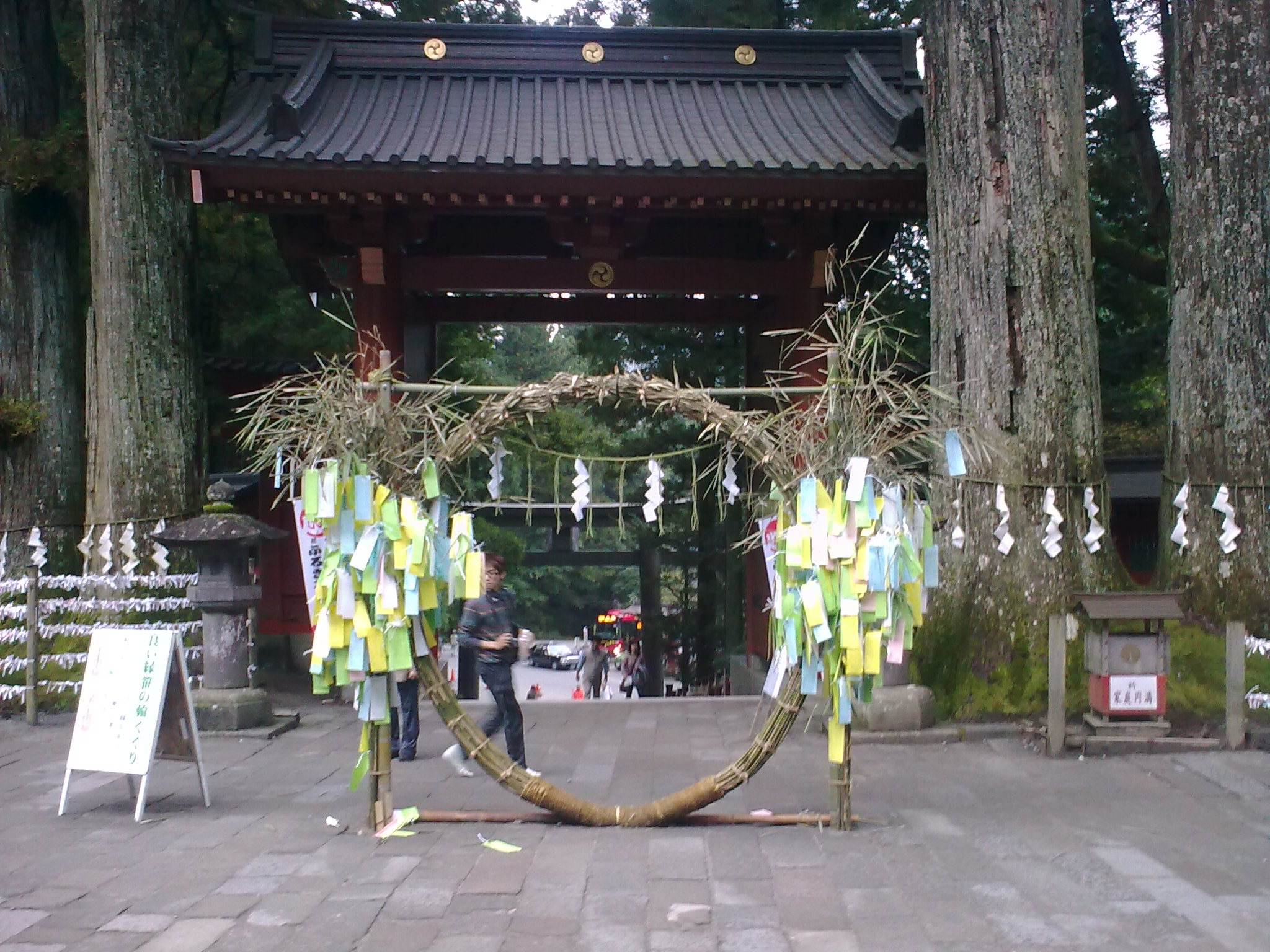 holy ring, Shinto